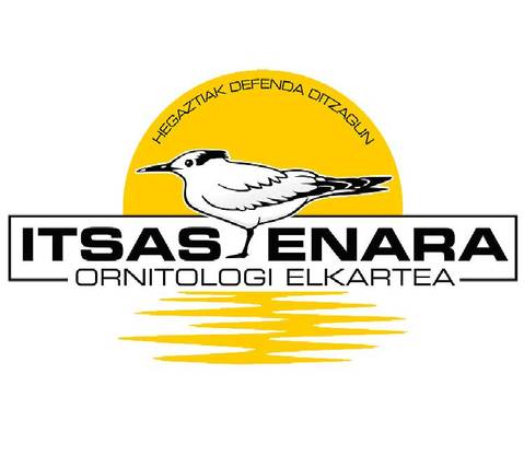 Itsas Enara Ornitologia Elkartea's logotype